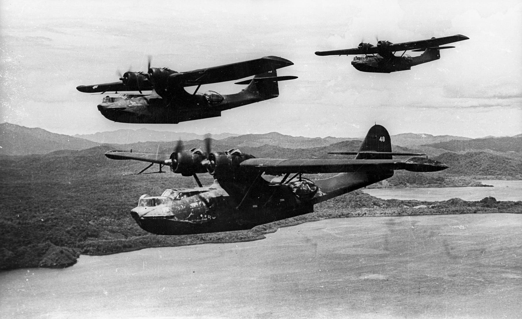 Three Consolidated PBY-5A Catalinas of patrol squadron VP-52 in the south-west Pacific in December 1943. VP-52 was based at Port Moresby, New Guinea at that time and was engaged in so-called "Black Cat" (nighttime) operations.